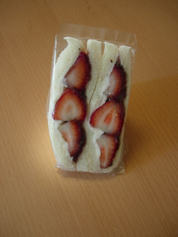 It is Japanese funny sandwich contains strawberry and sweet bean paste. I bought this sandwich at Asahi-ya in Nagoya ,Japan. イチゴ小倉サンド